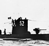 Characteristic sail of the first group (U45-U55) of VIIB type U-Boots.